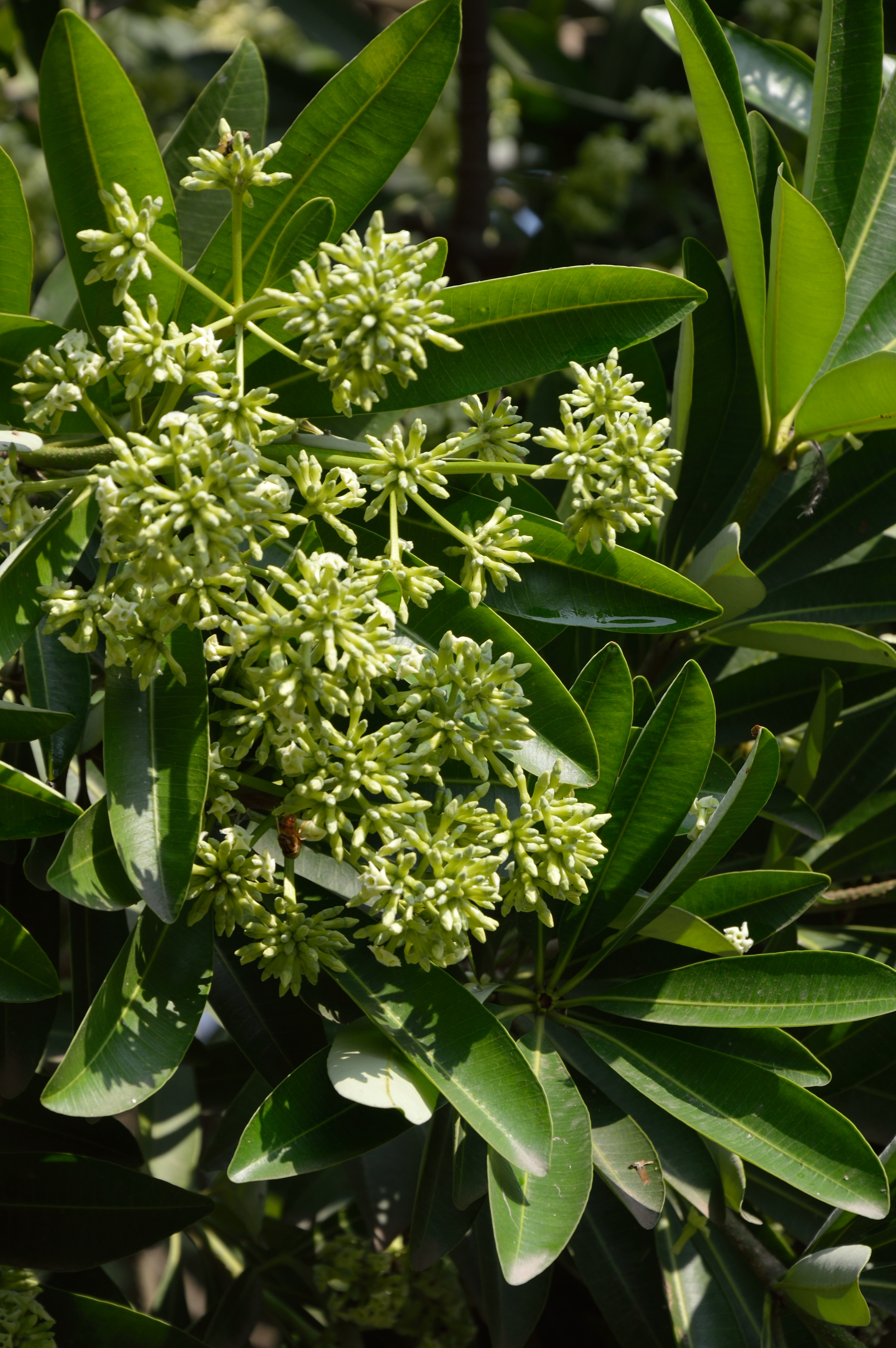 Photographed in Kolkata on 'Mahalaya' day, India.